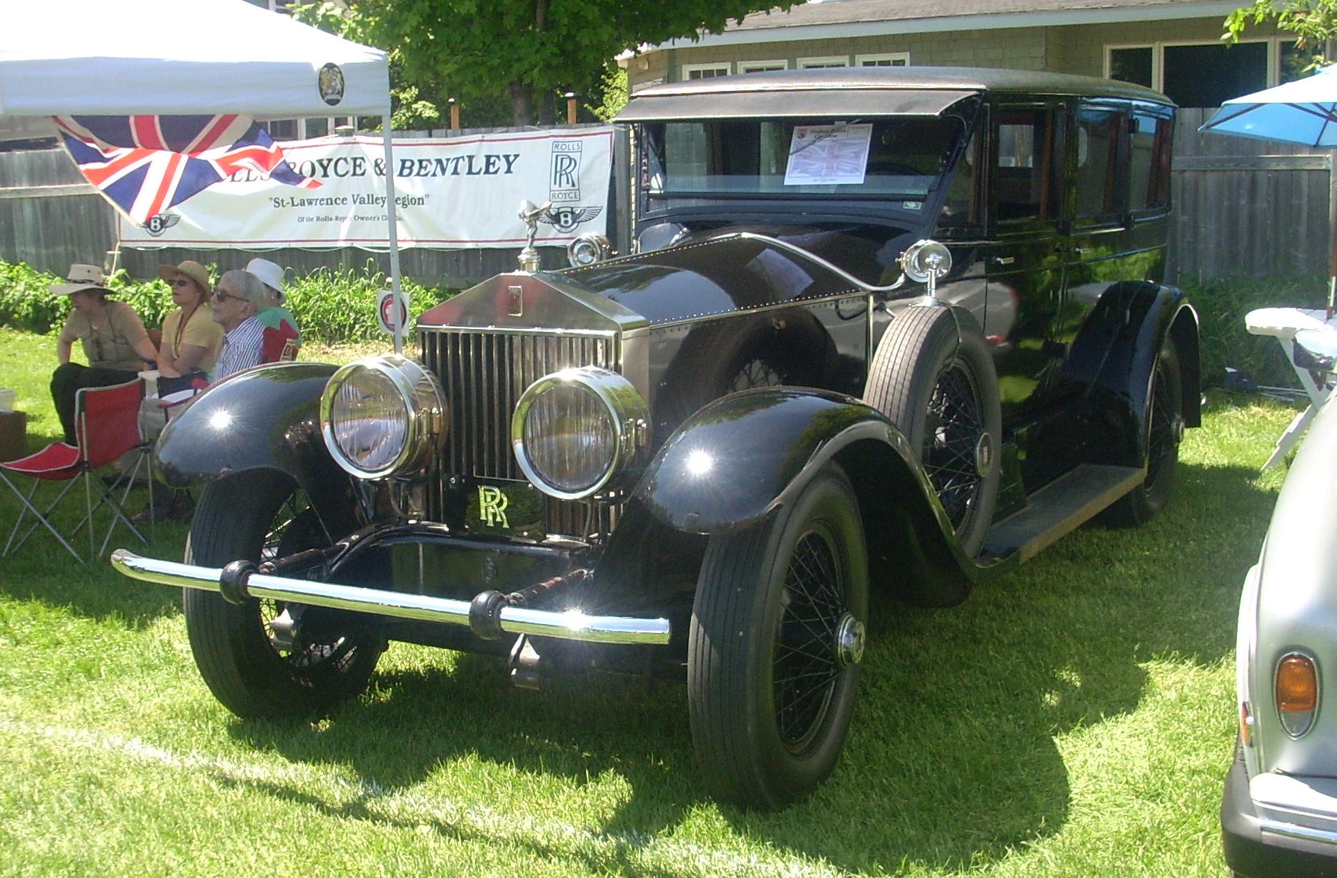 1927 Rolls-Royce Phantom photographed at the 2008 Hudson British Car Show.